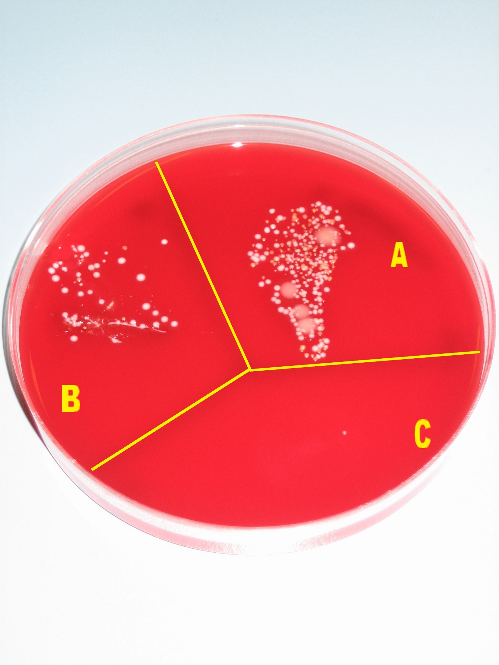 Microbial growth on a blood agar plate without any procedure (sector A), after washing hands (sector B), and after disinfecting hands with alcohol (sector C).